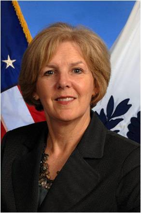 Mary E. Landry, Director of Incident Management, USCG